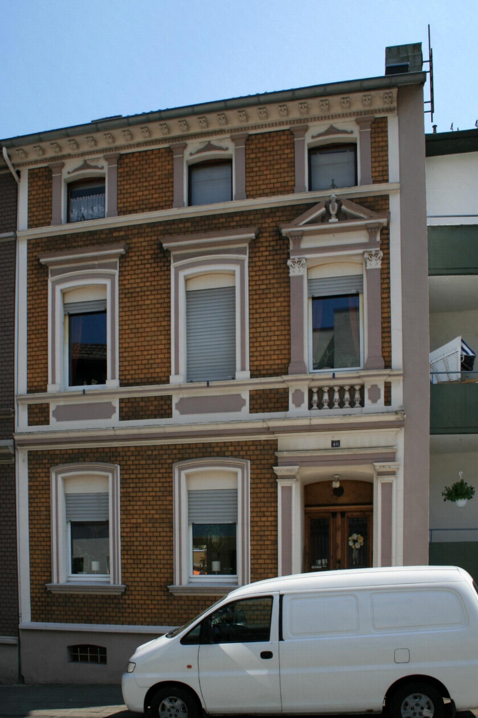 Cultural heritage monument No. Sch 021 in Mönchengladbach